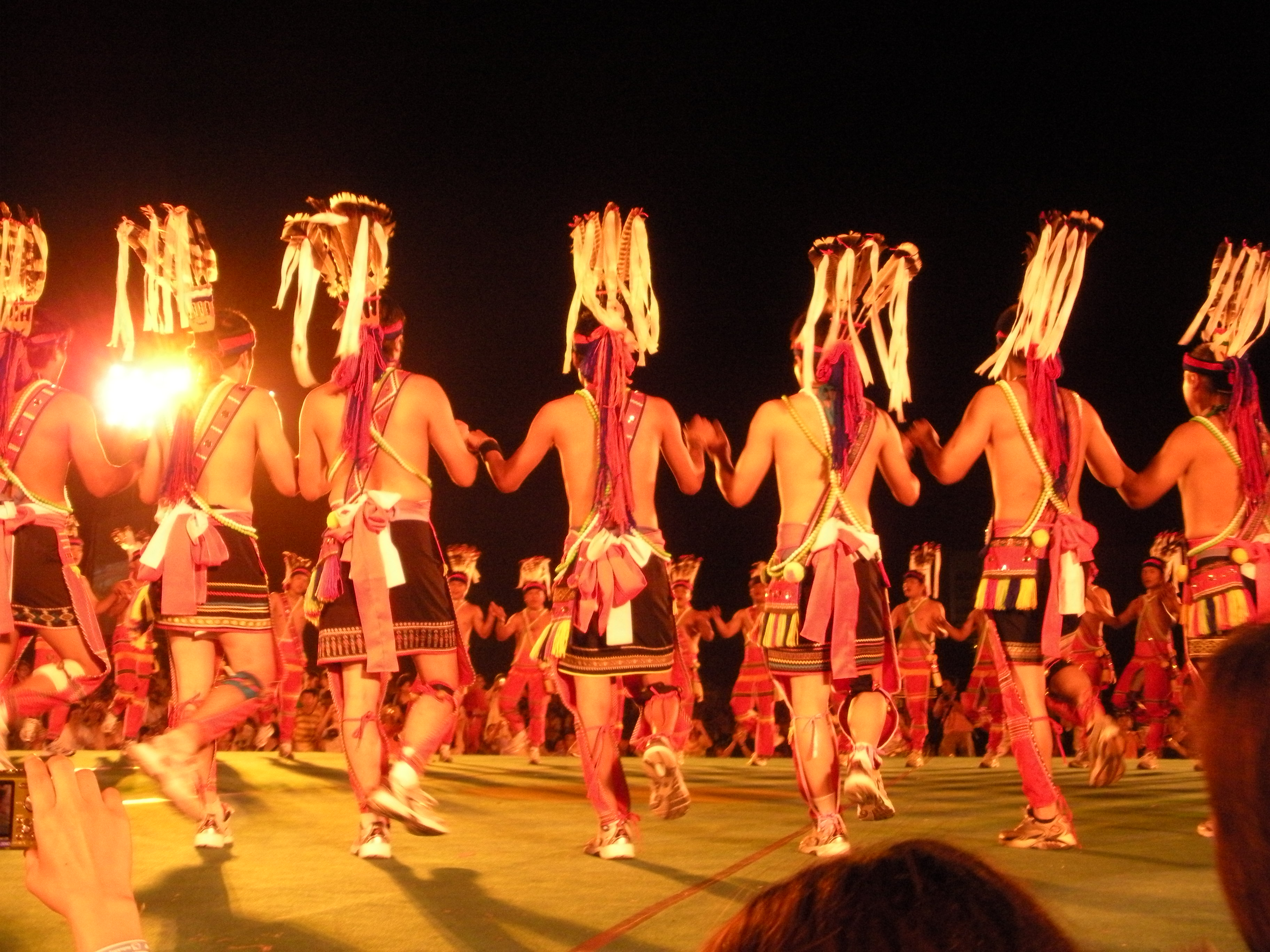 taiwan aborigine amis dance.